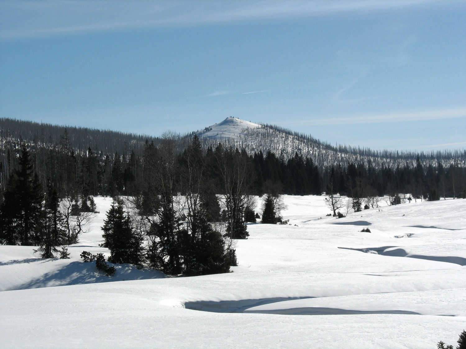 The view of Lusen from Březník in the Šumava Mts., Czech republic